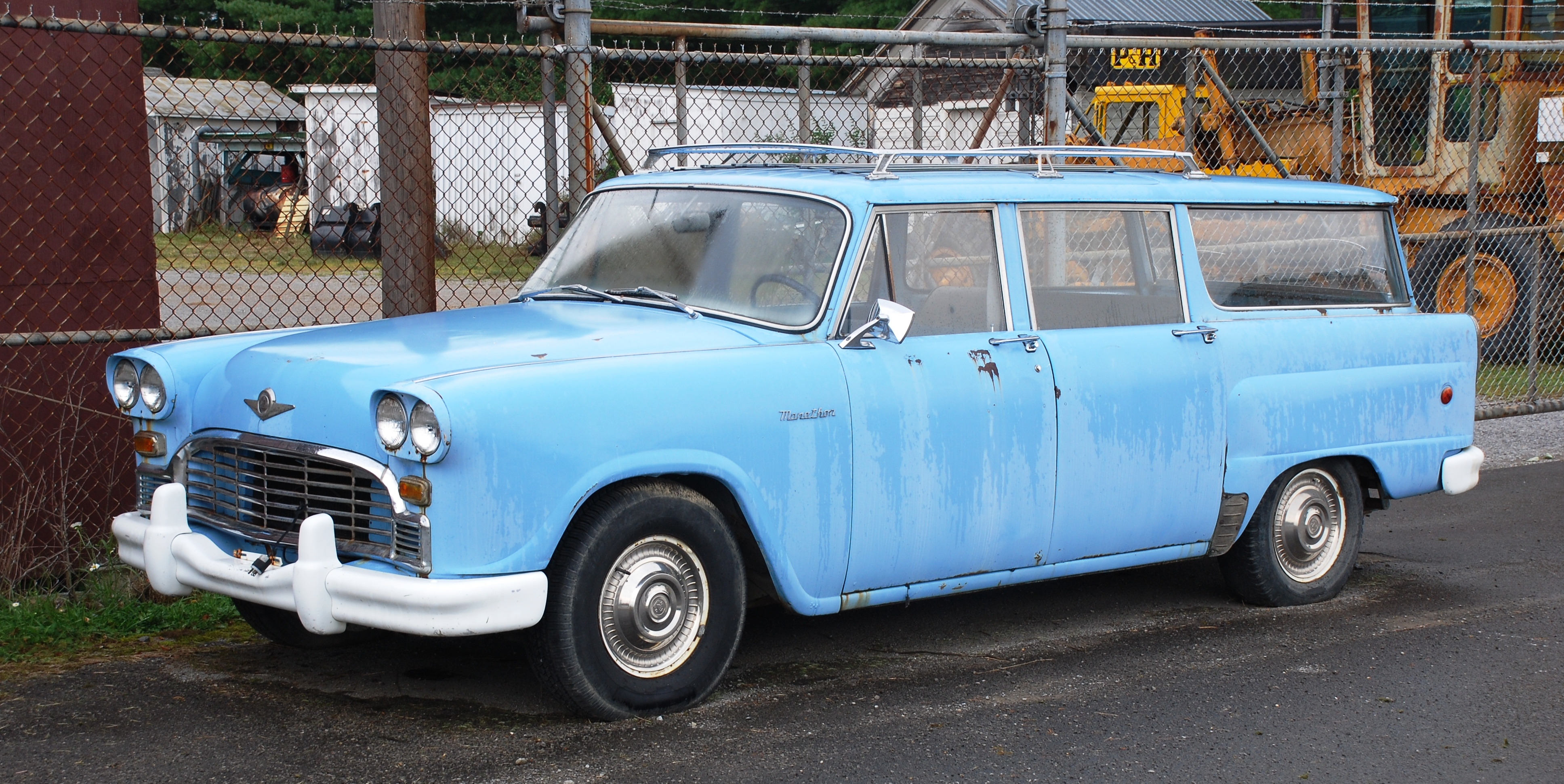 National Radio Astronomy Observatory in Green Bank, West Virginia uses a fleet of old (no computer) diesel (no spark-plugs) cars and trucks for the site maintenance to minimize radio pollution around the telescopes. This 1963-1967 Checker Marathon is part of the government fleet.